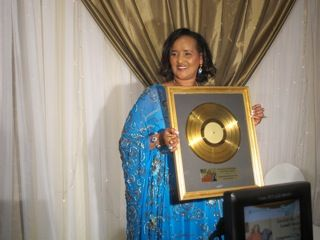 Somali singer Saado Ali Warsame receiving a Gold Record, Lifetime Achievement Award at a Somali community event in Toronto (June 4, 2011).